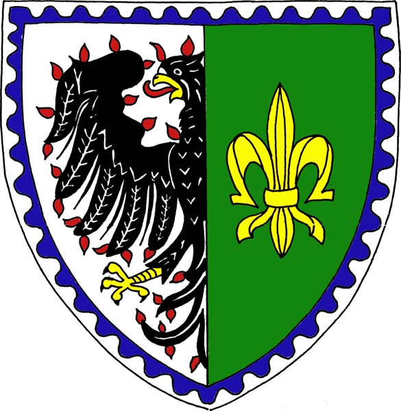 Coat of arms of Křivoklát municipality. Rakovník District, Czech Republic.